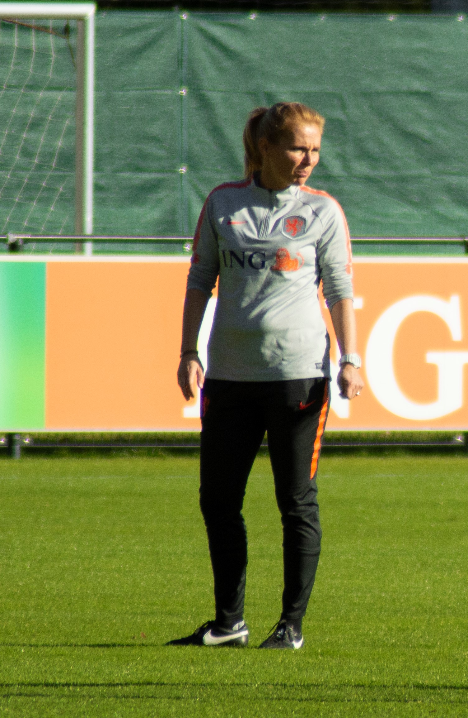 Sarina Wiegman training the Netherlands women's national football team on November 6, 2018.